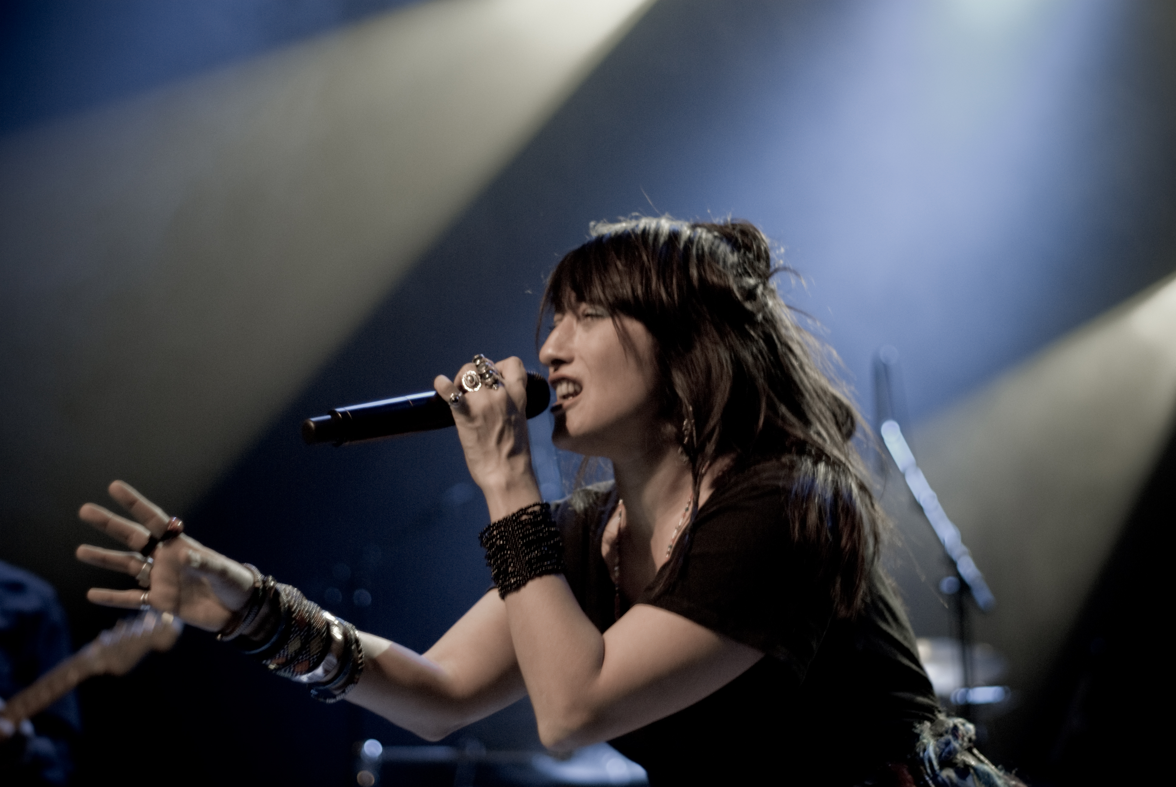 Moroccan born French singer Hindi Zahra, who sings in French, English and Berber.